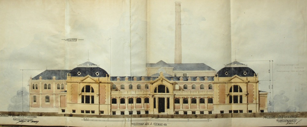 Altes Stadtbad am Wollhausplatz in Heilbronn, Architekt Ernst Peters aus Berlin erbaut vom Stadtbauamt Heilbronn, Stadtbaumeister Gustav Wenzel (1839–1923)